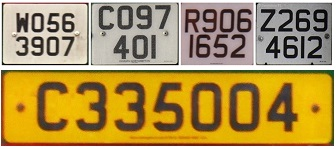 UK trailer plates (non-official)